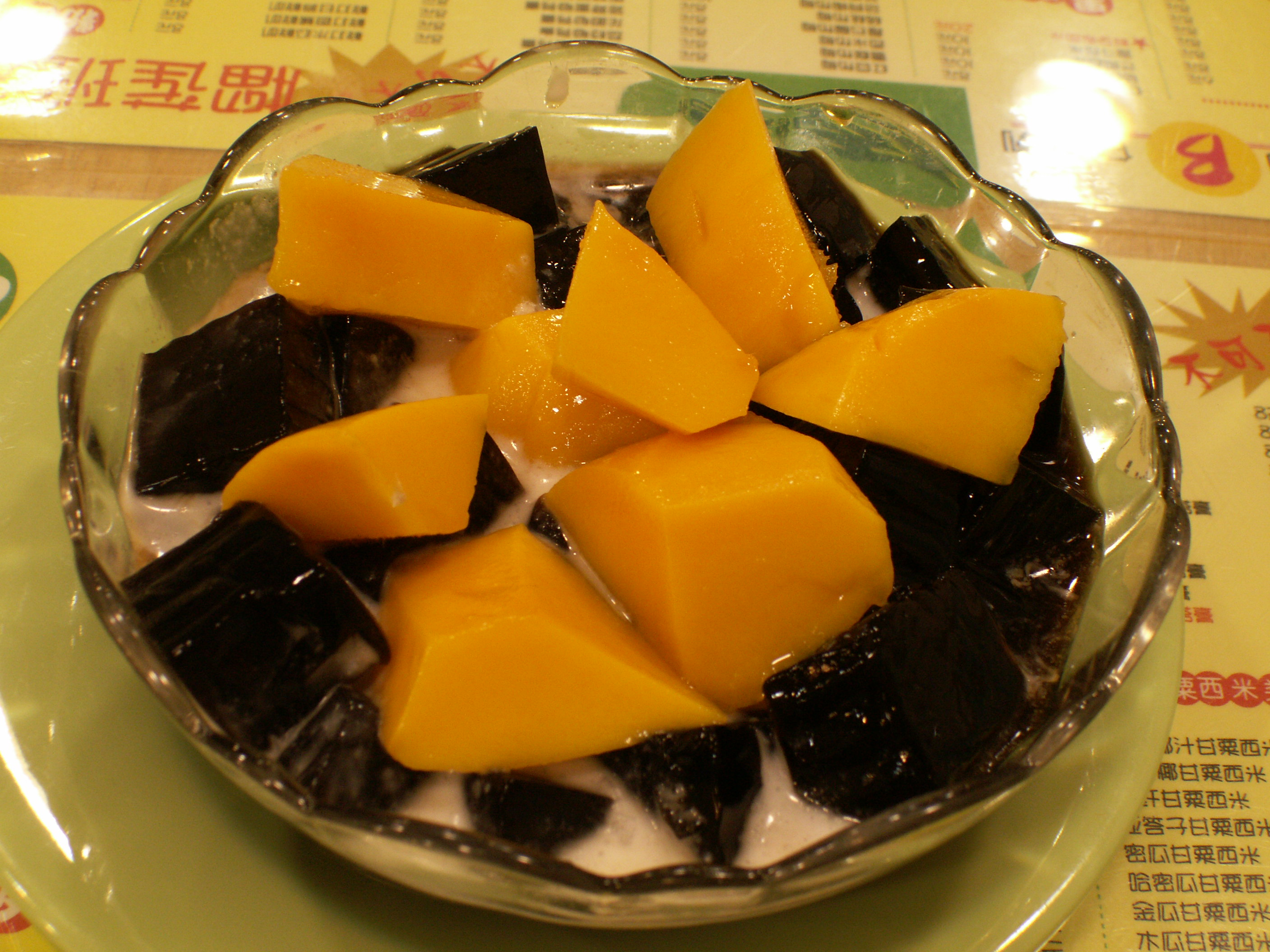 Taken in a snack house.